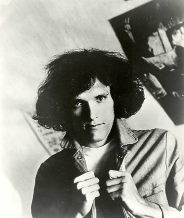 Promotional photo of Jorma Kaukonen-Jefferson Airplane.